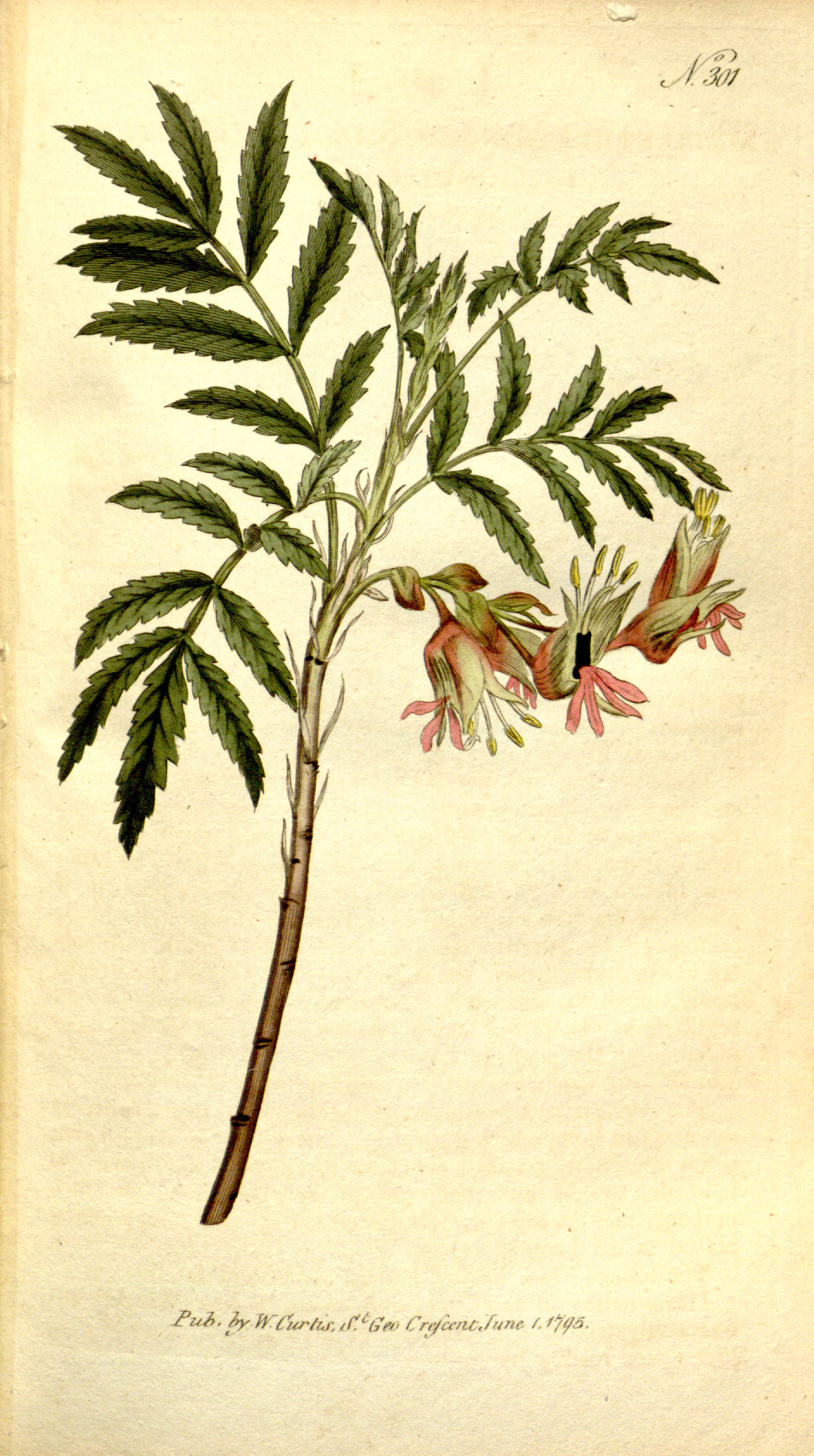 This is a plate from The Botanical Magazine, Volume 9.